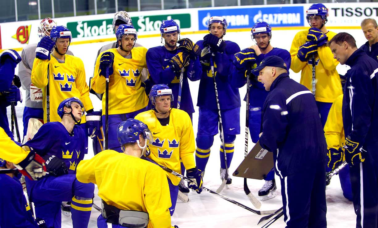 Erik Granqvist in the National team